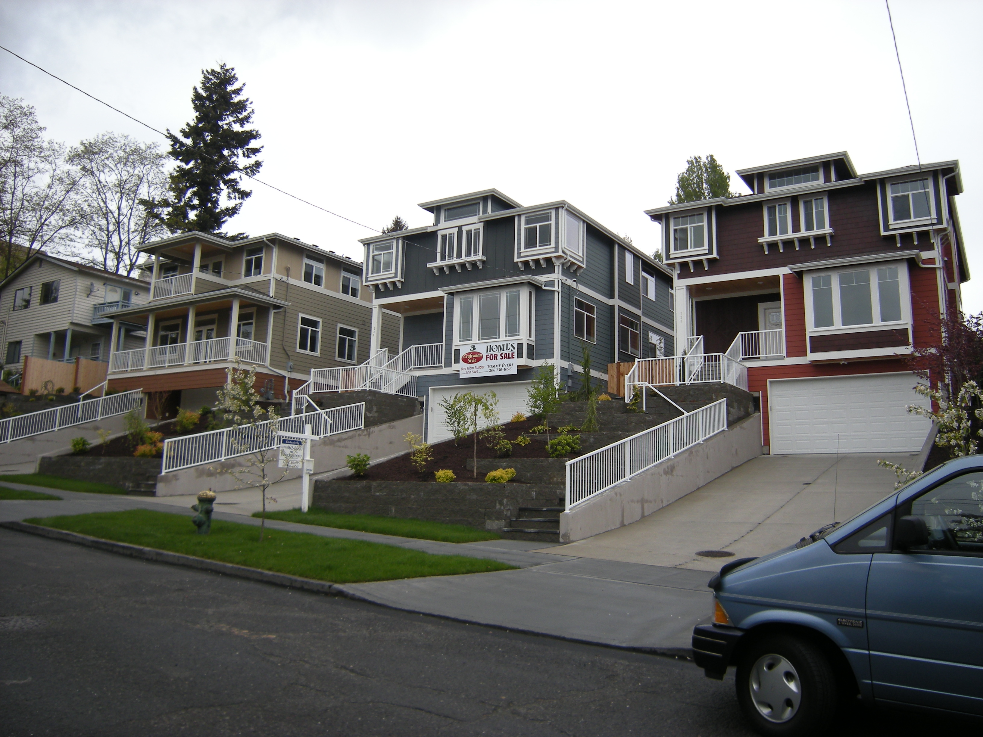 Recently constructed houses in the Craftsman style in the 300 block of 16th Avenue, Squire Park, Seattle, Washington, USA.